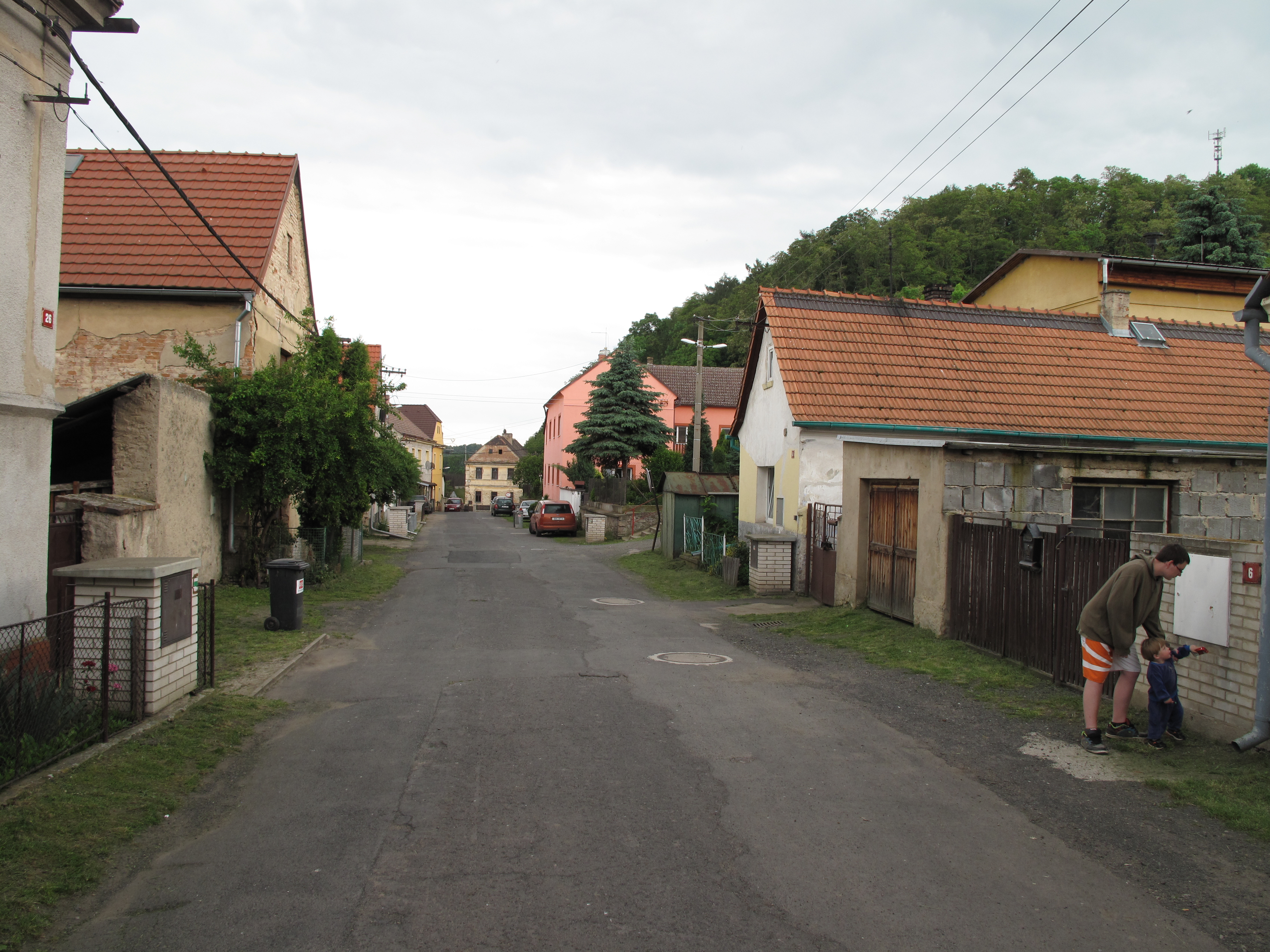 Street in Litochovice nad Labem village, Litoměřice District, Czech Republic. Personality rights warningAlthough this work is freely licensed or in the public domain, the person(s) shown may have rights that legally restrict certain re-uses unless those depicted consent to such uses. In these cases, a model release or other evidence of consent could protect you from infringement claims.